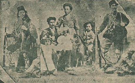 Portrait of IMARO members Apostol and Srebra Ushlinovi with their children, Varna